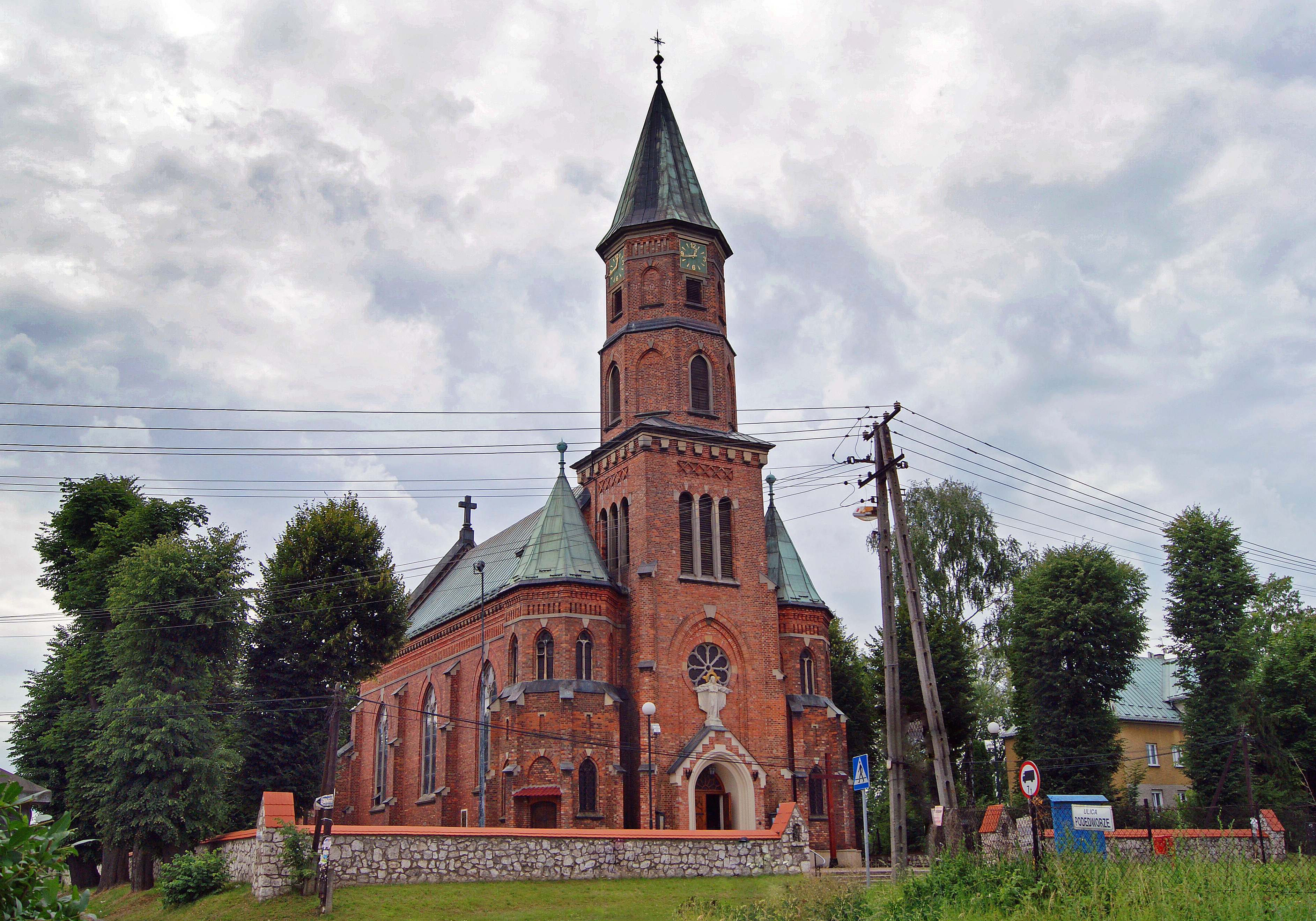 Church of the Sacred Heart of Jesus (1923 design. by Kazimierz Brzeziński), 144 Cechowa street, Krakow, Poland